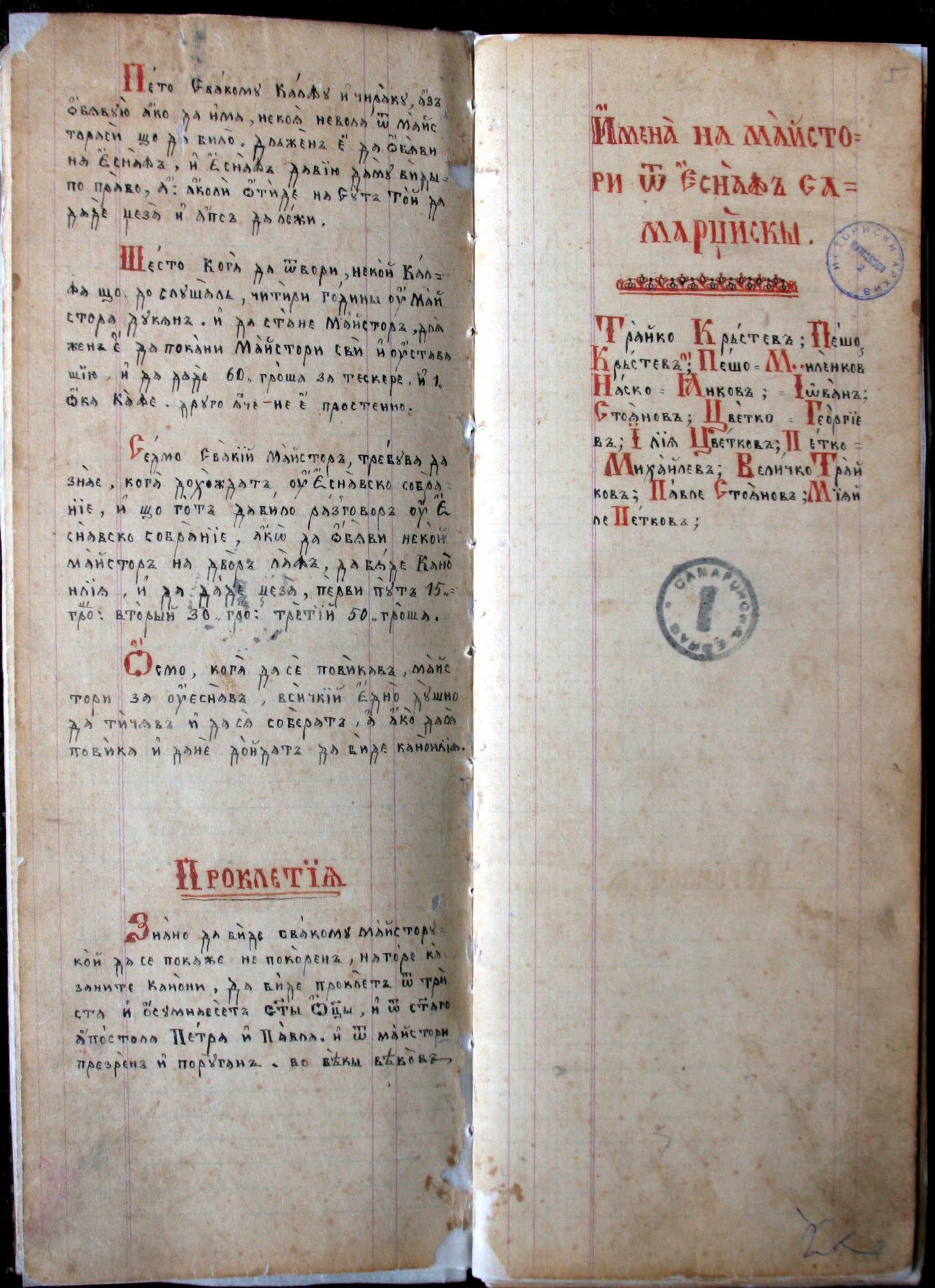 Codex of the Pack Saddlers' Guild of Kumanovo